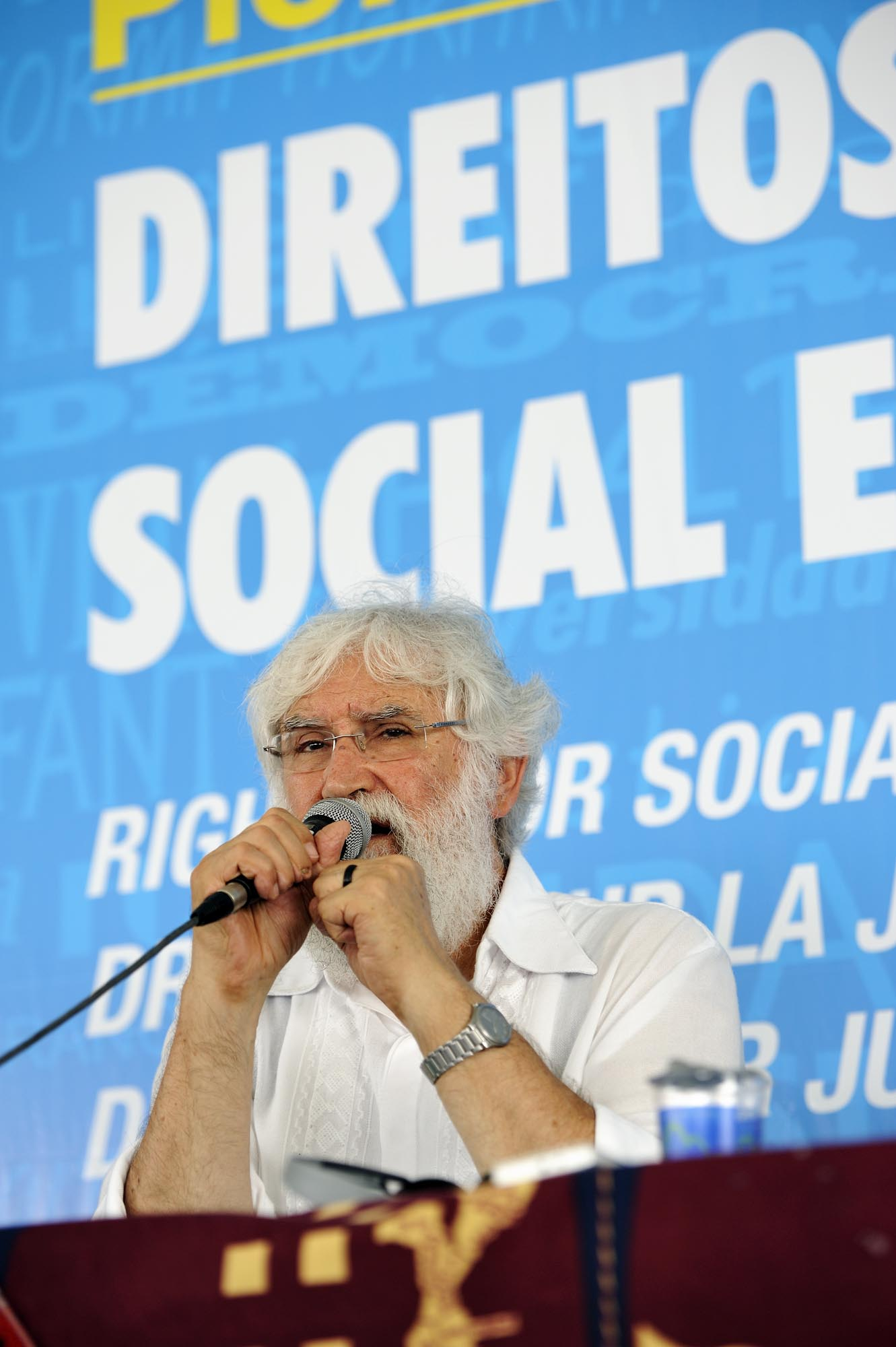 Leonardo Boff during a plenary at the Rio+20 Peoples summig, Rio de Janeiro, Brazil copyright CIDSE/Florian Kopp